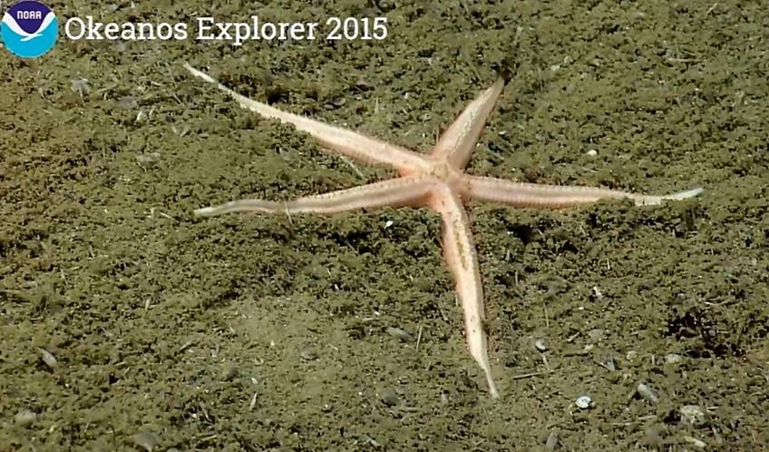 Zoroaster fulgens in the abyss off to Porto Rico.